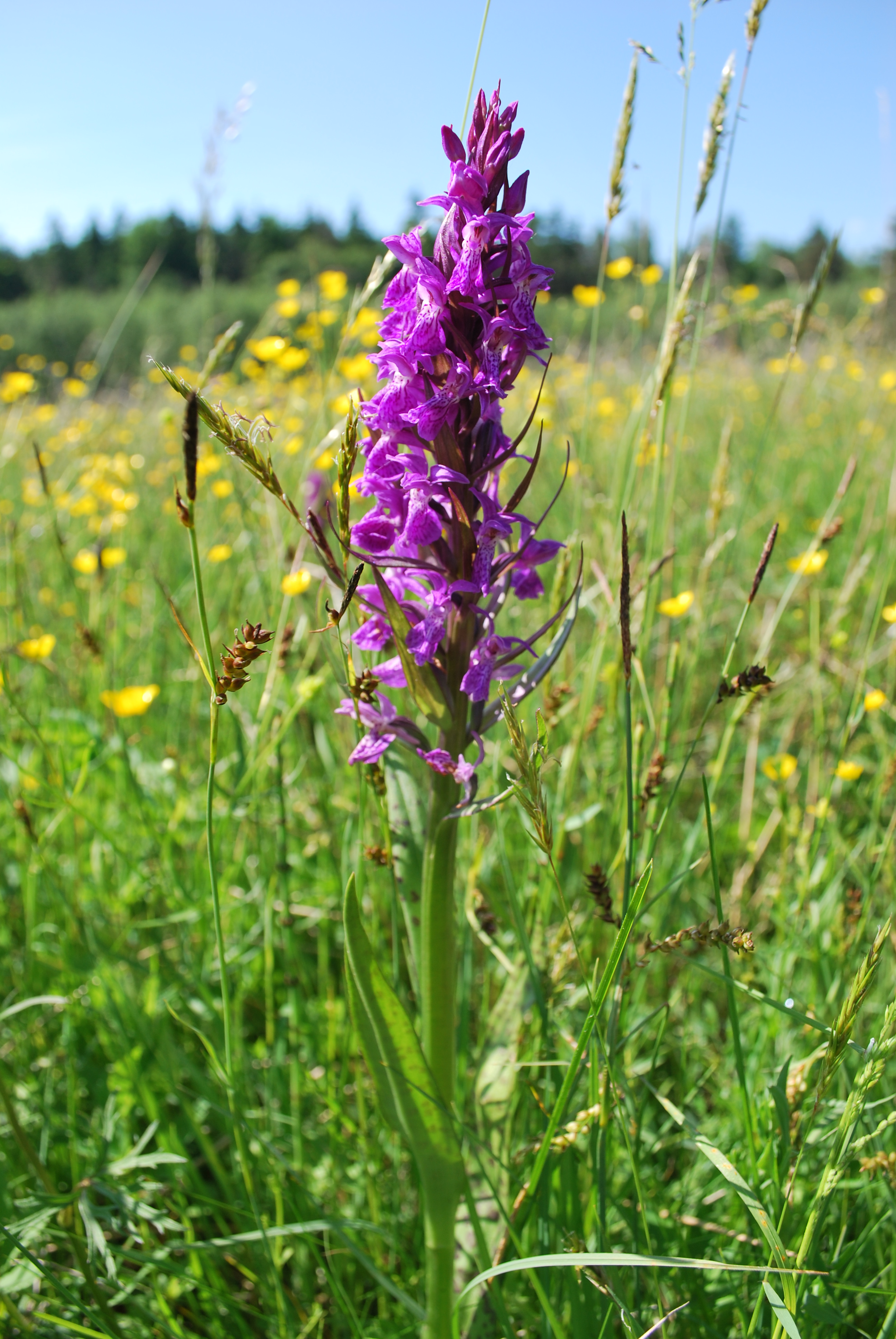 Nature reservation "Na Volešku", near village Soběšice in Klatovy District, Czech republic. This photograph was taken within the scope of the 'Czech Municipalities Photographs' grant.